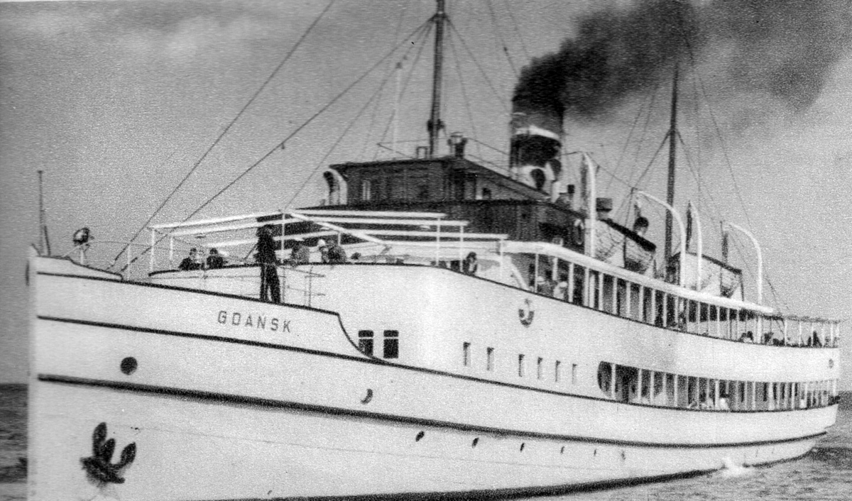 Polish coastal passenger ship Gdańsk (1927-1939).